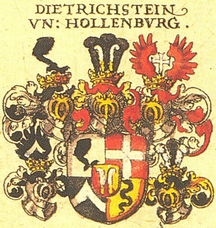 Coat of arms of Dietrichstein von Hollenburg family from Siebmachers Wappenbuch